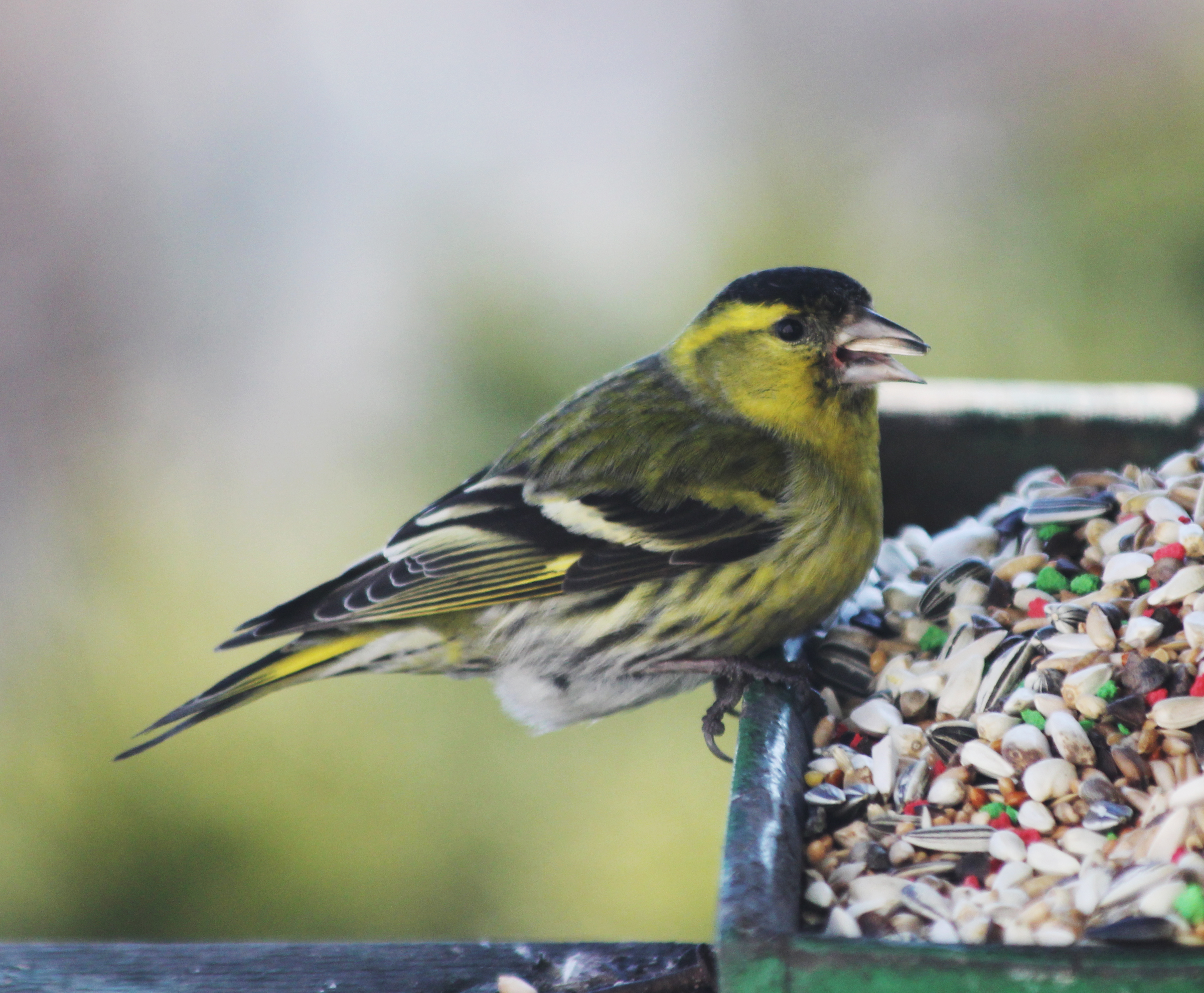 Bird Eurasian Siskin , Carduelis spinus in Jaroměř, Czech Republic